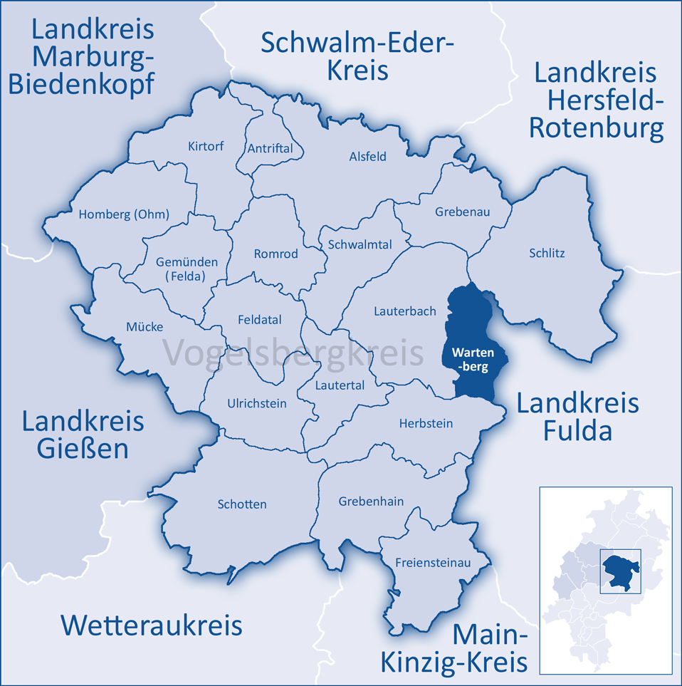 The map shows a district in the area of Vogelsbergkreis